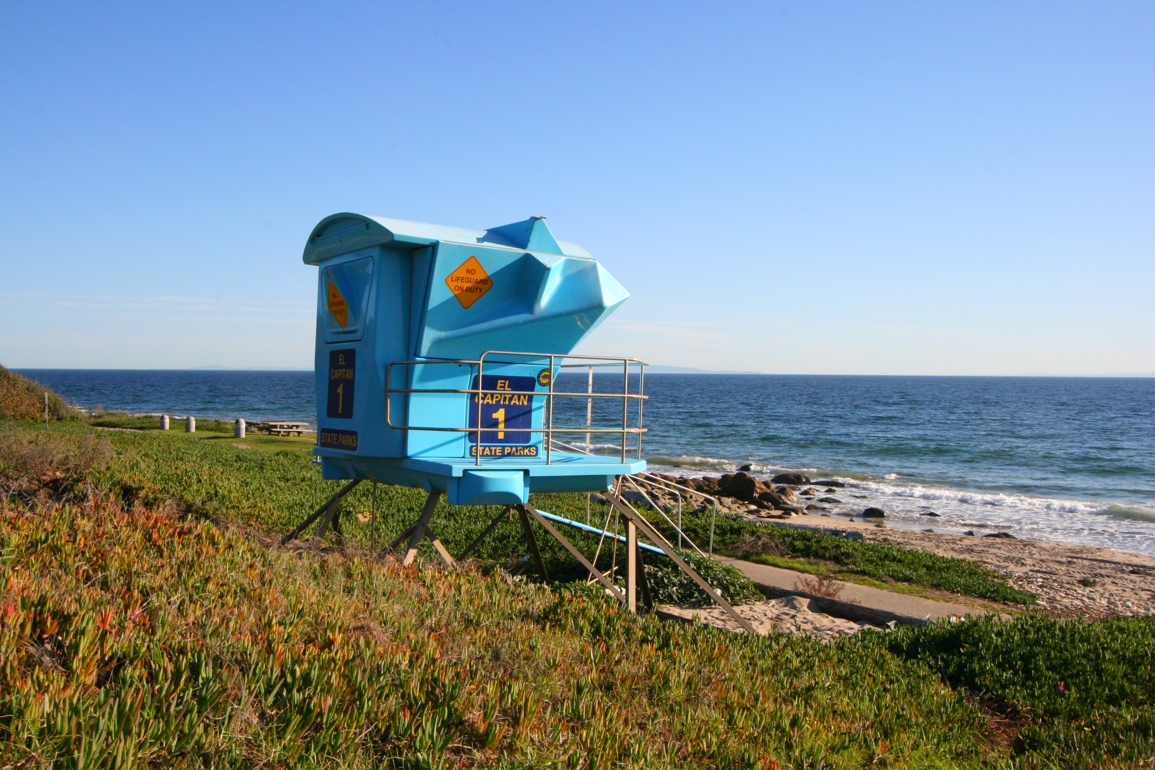 Lifeguard tower at El Capitán State Beach in Santa Barbara County, California.